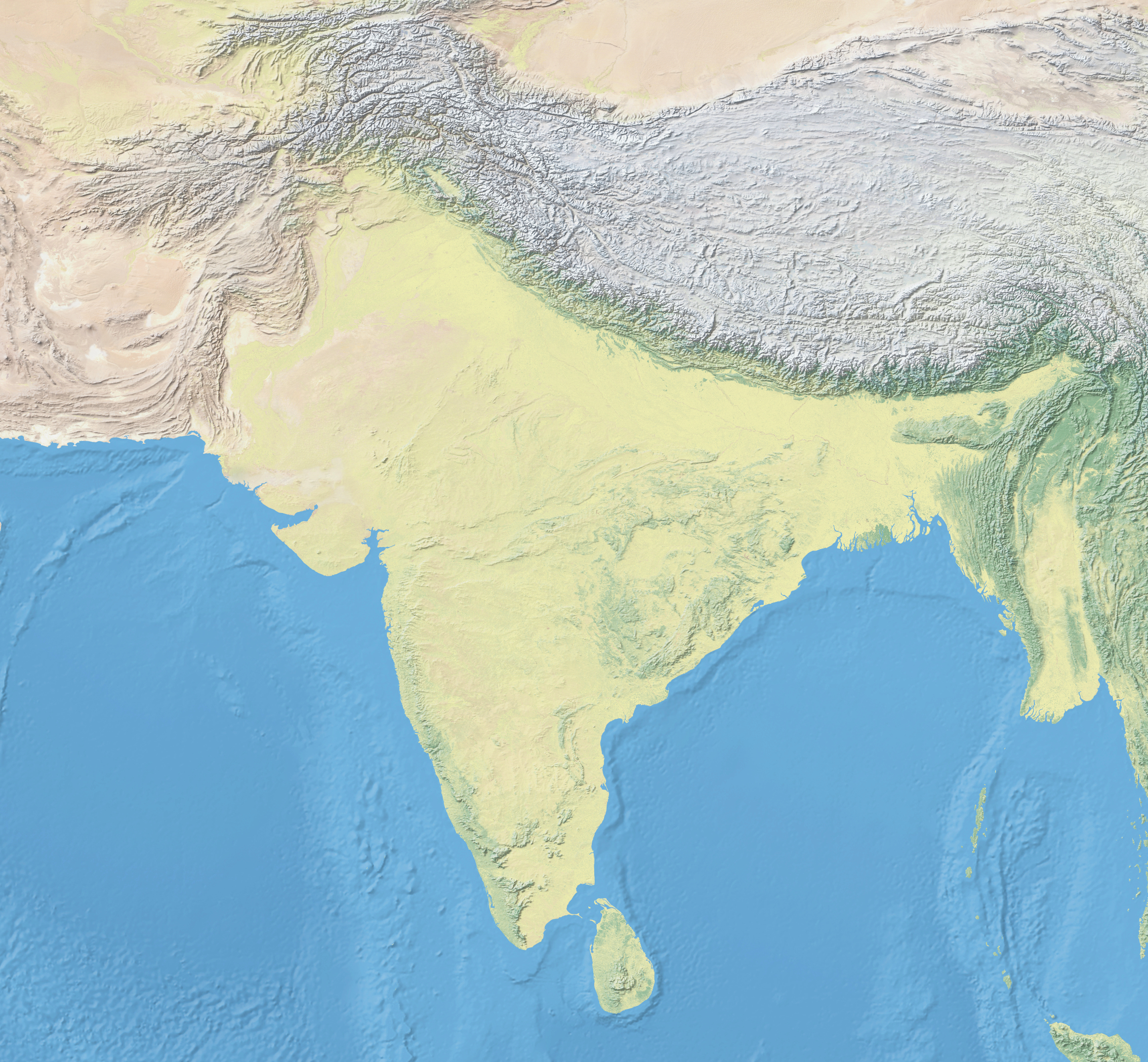 South Asia non political (light)